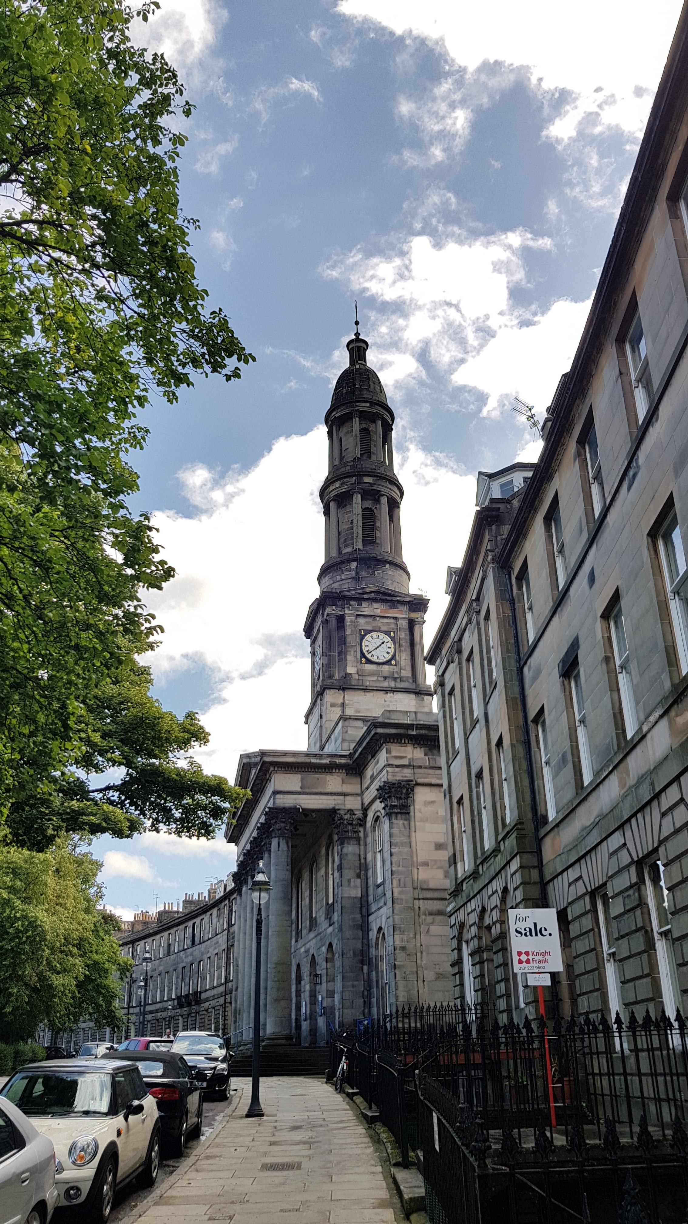 Broughton St Marys Church, Edinburgh, UK. Side elevation, facing south, in situ at the midpoint of Bellevue Crescent